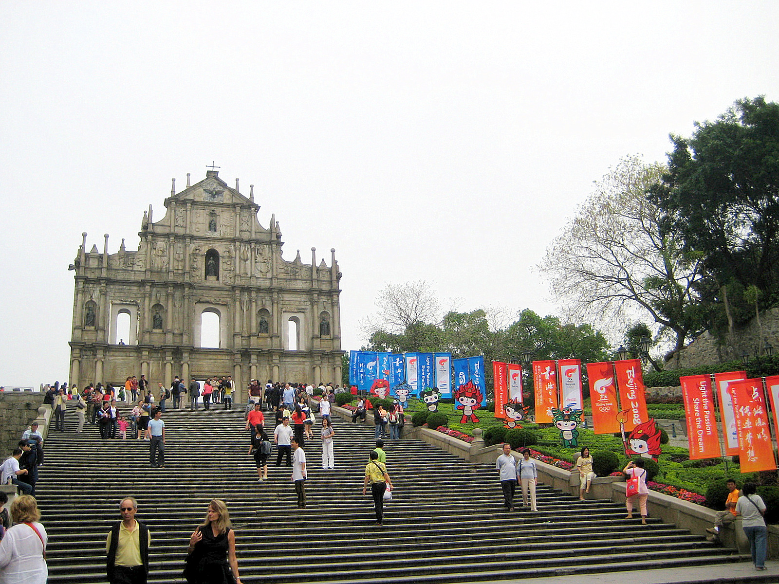 Monuments